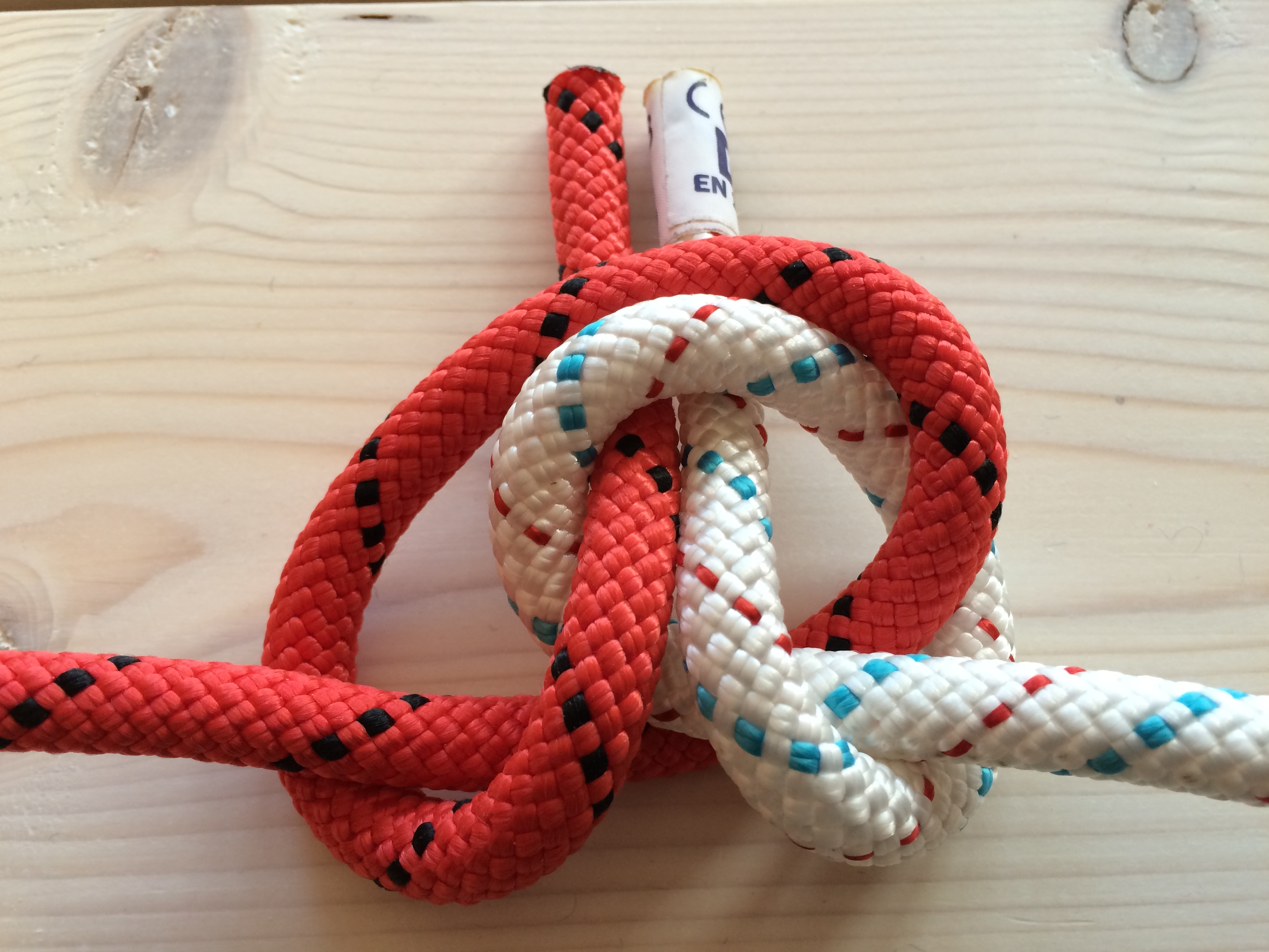 AlpineButterflyBend